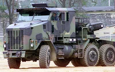 HET tractor from [1]